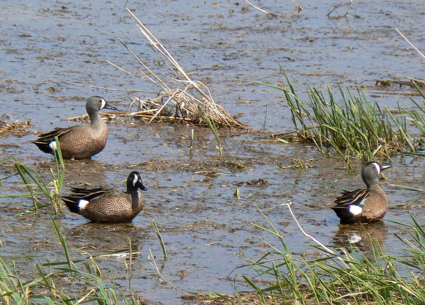 Blue-winged Teals in the marshes at Chalco Hills Recreation Area